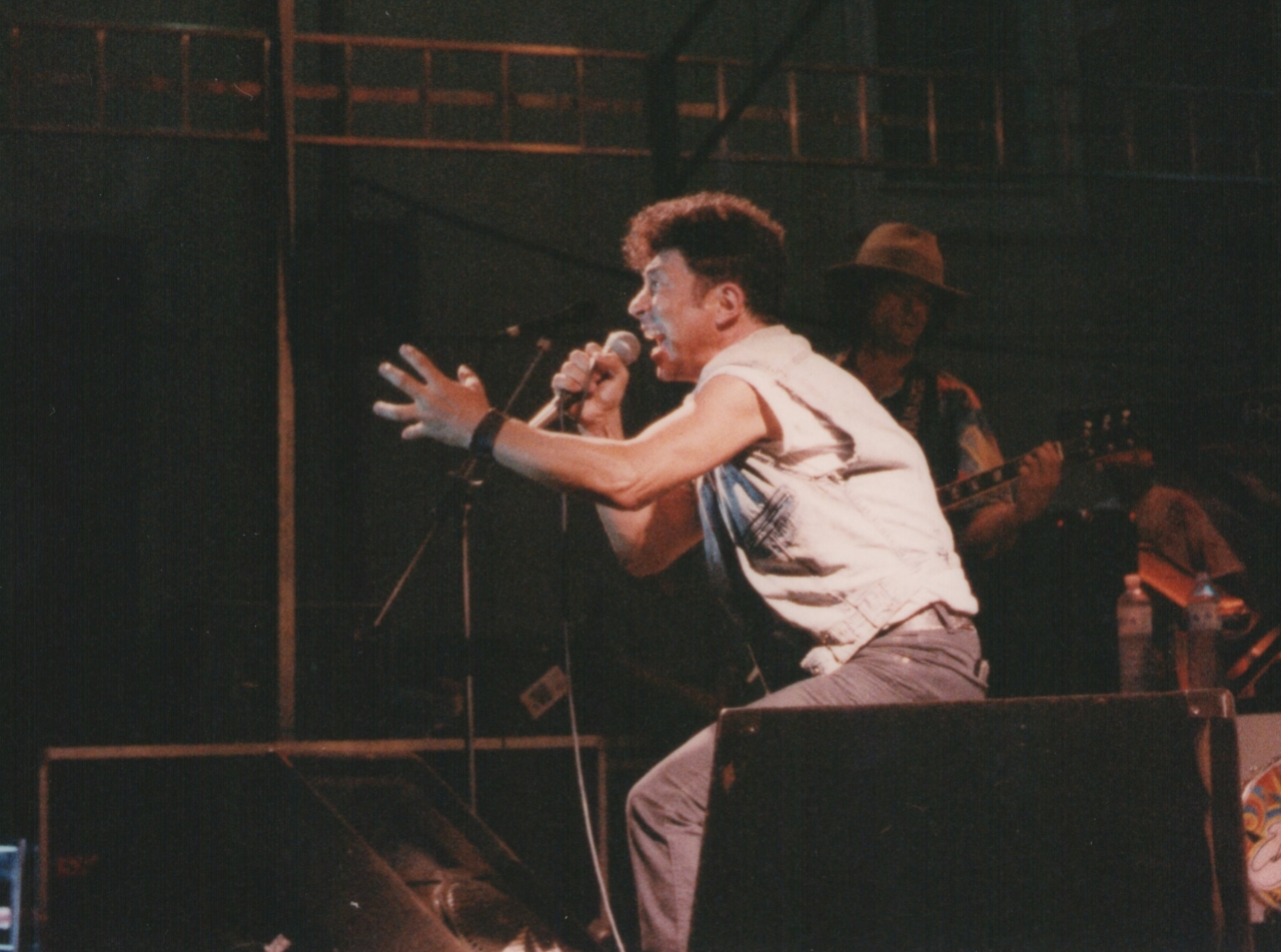 Edoardo Bennato @ Liri Blues 1993